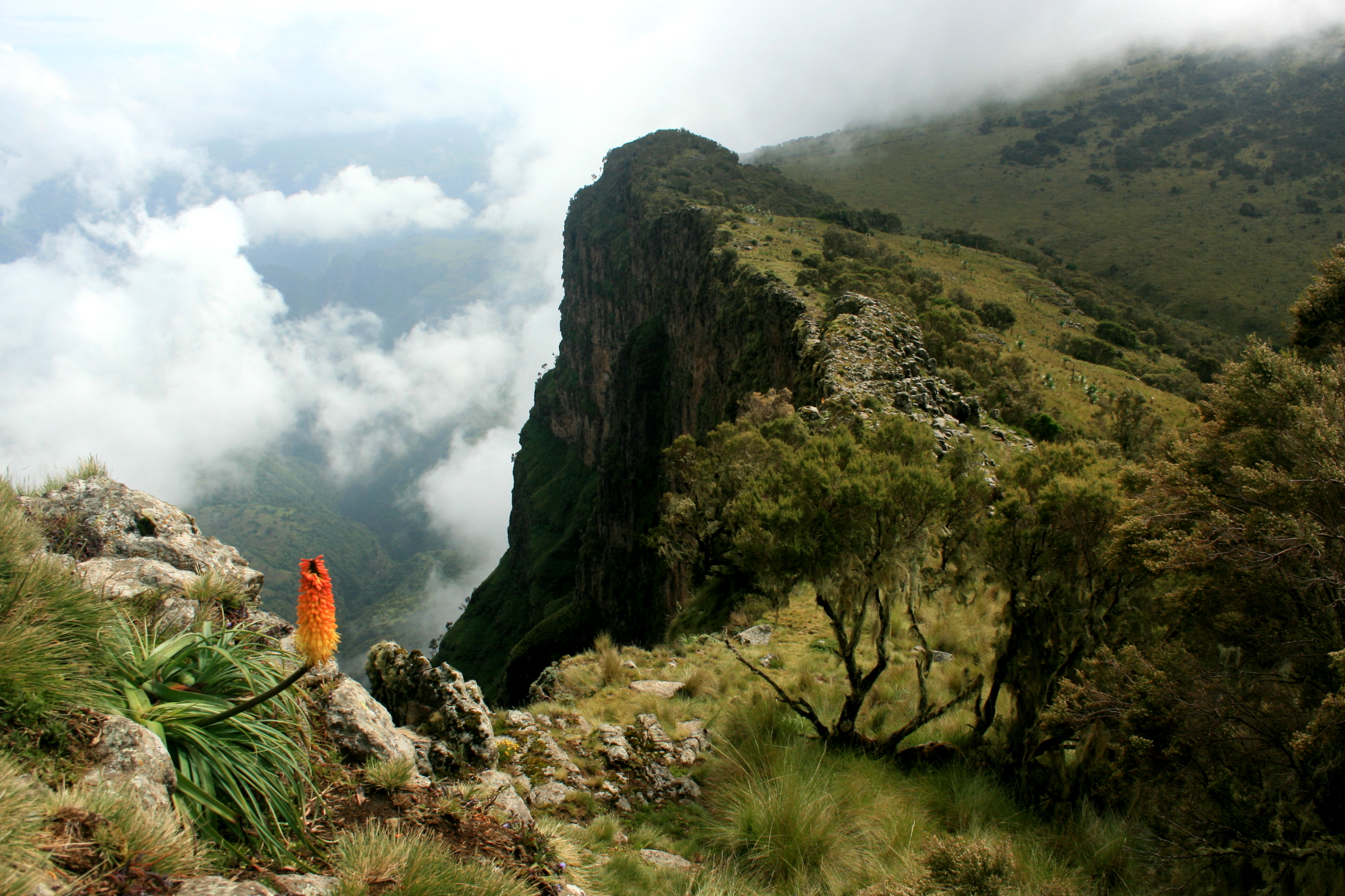 Simiens National Park (Ethiopia)